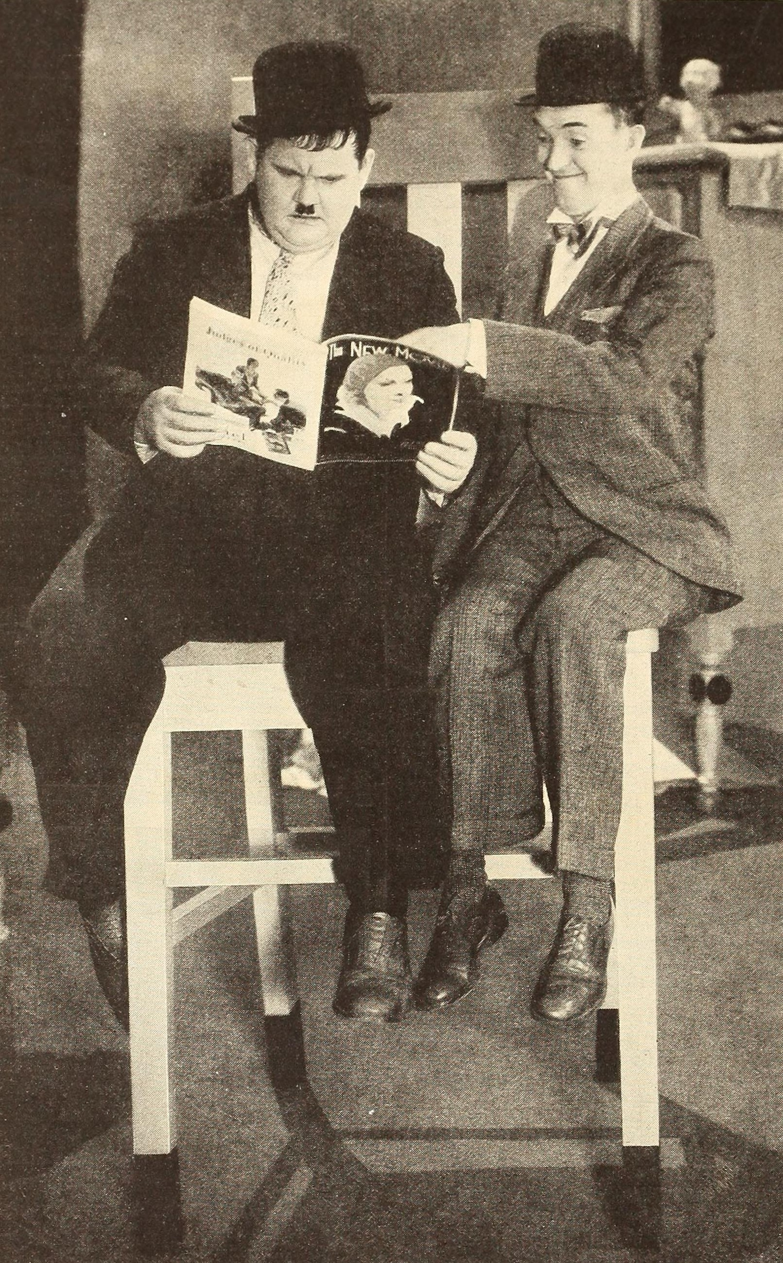 The New Movie, Feb. 1930